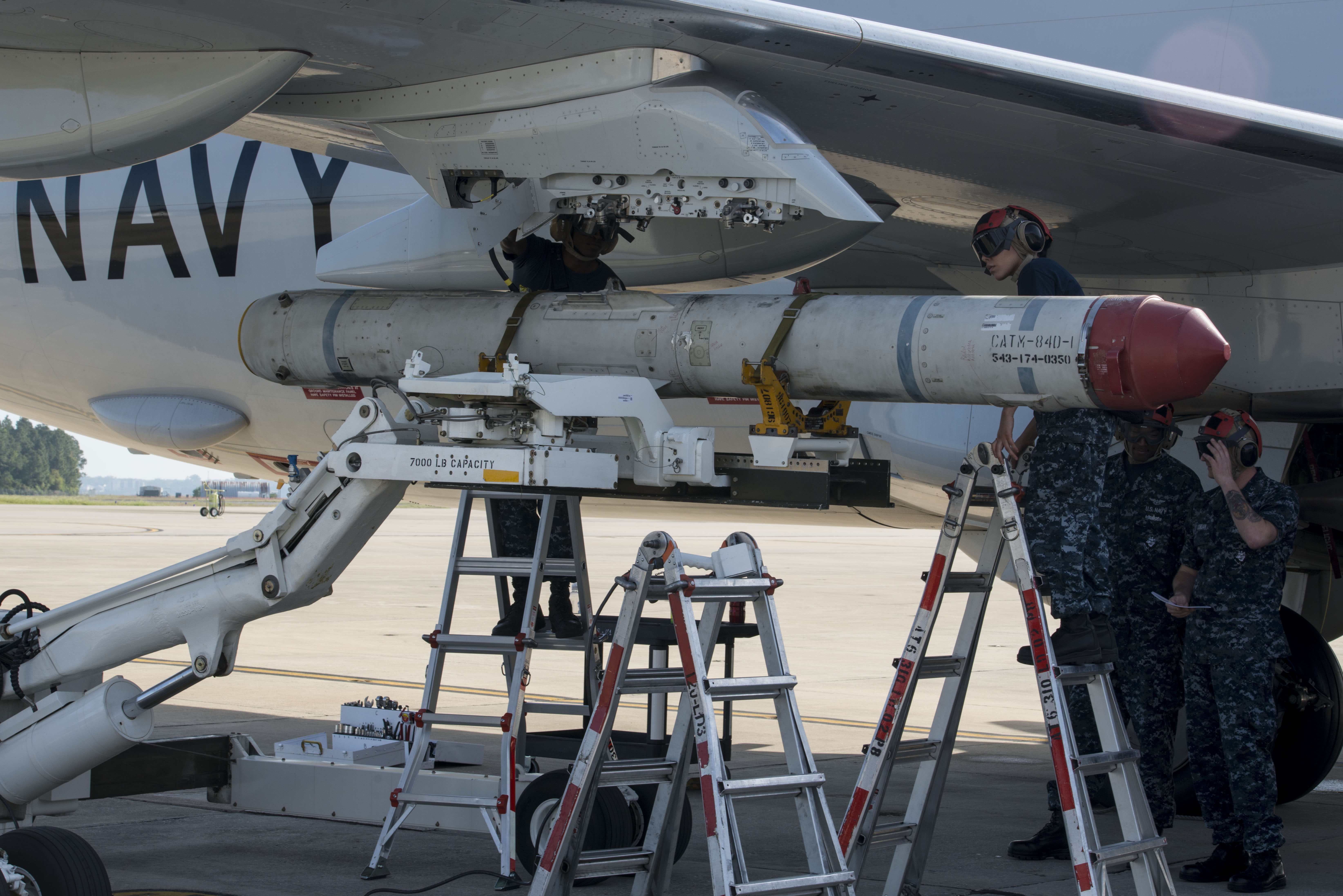 U.S. Navy Aviation Ordnanceman 3rd Class Michael Martin, left, and Aviation Ordnanceman Airman Cecilia Duran, of Patrol Squadron (VP) 30 "Pro's Nest", load an AGM-84K SLAM-ER missile on a Boeing P-8A Poseidon in preparation for a conventional weapons technical proficiency inspection. The P-8A Poseidon crews were participating in Fleet Challenge 2014 at Naval Air Station Jacksonville from 4-10 April 2014.